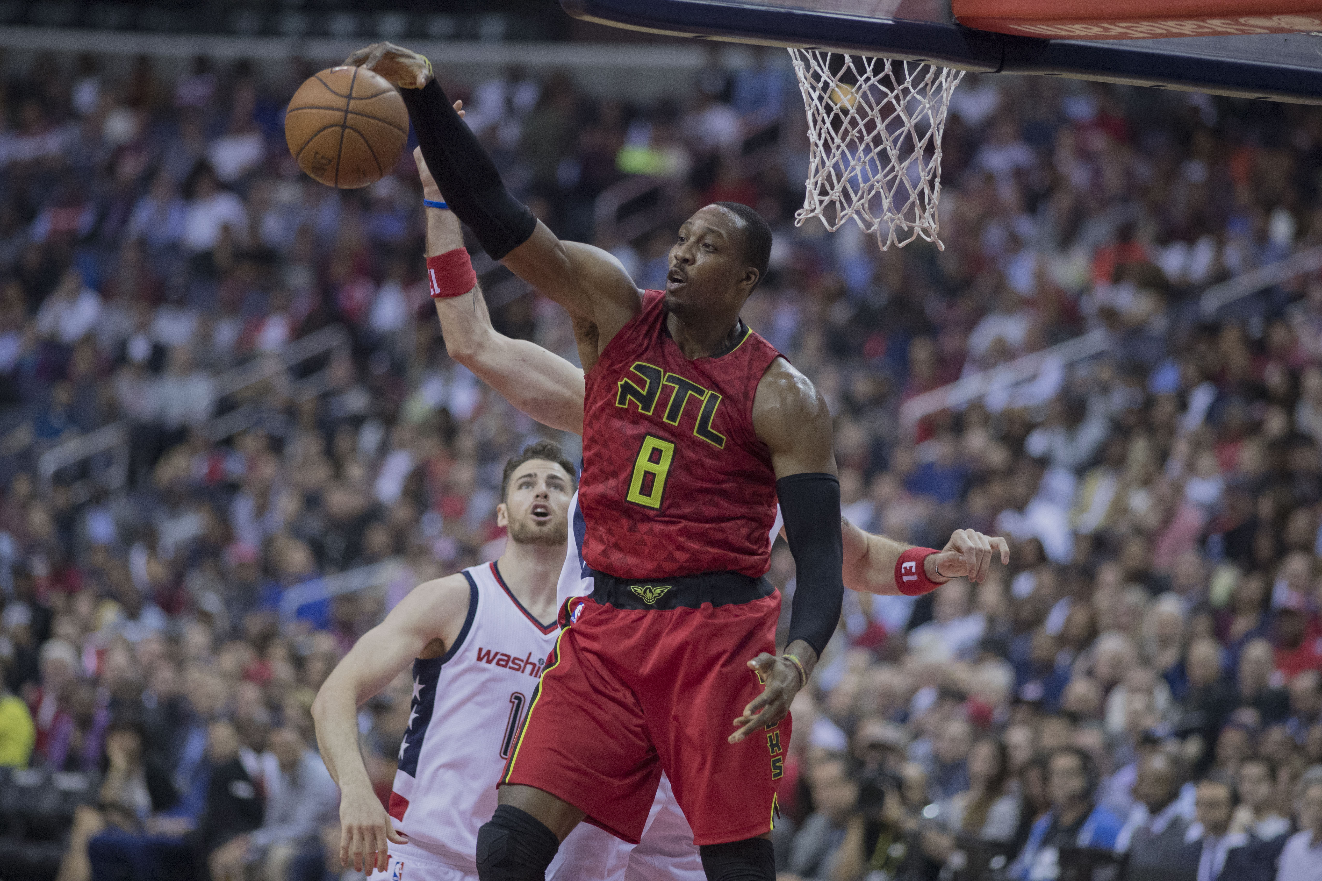 Hawks at Wizards 4/26/17